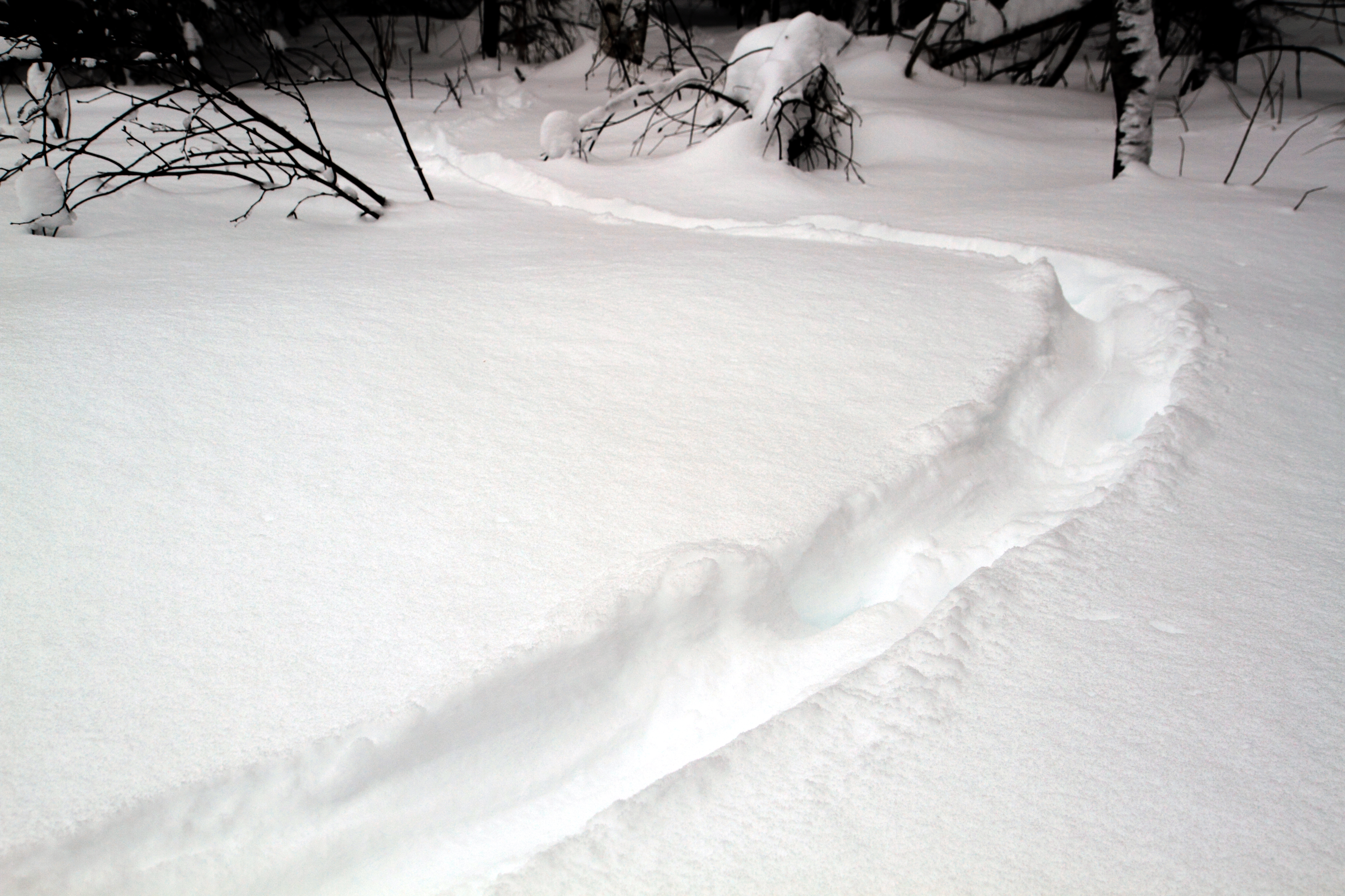 River otter tracks, Ripon, Québec, Canada